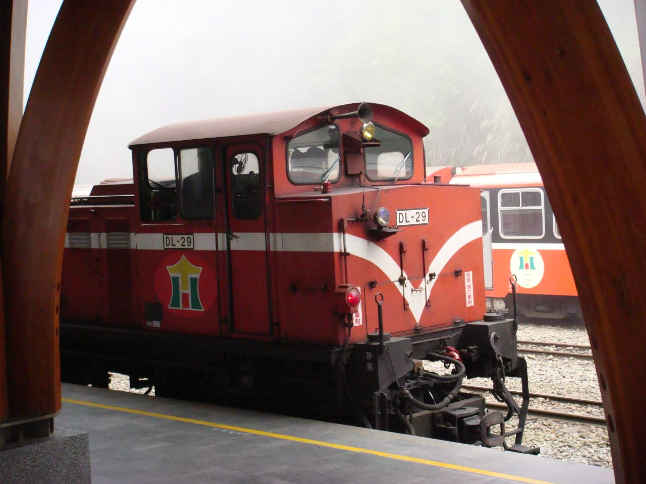 Alishan Forest Railway Diesel locomotive DL-29 @ Alishan Station